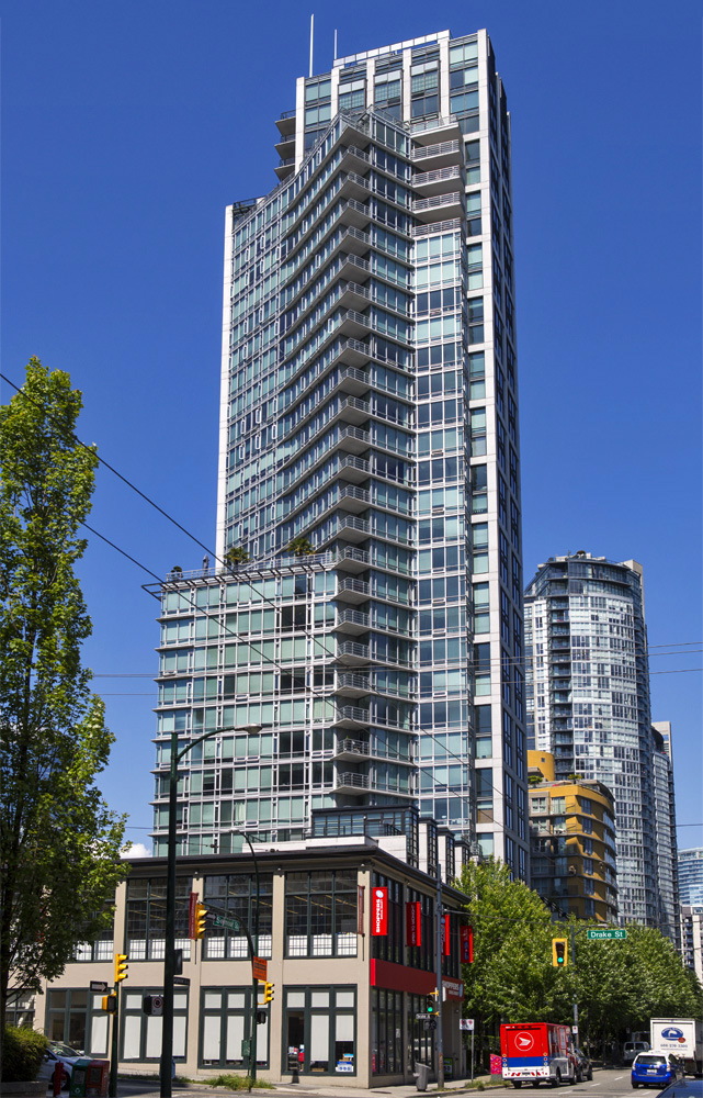 Elan residential tower in Vancouver.